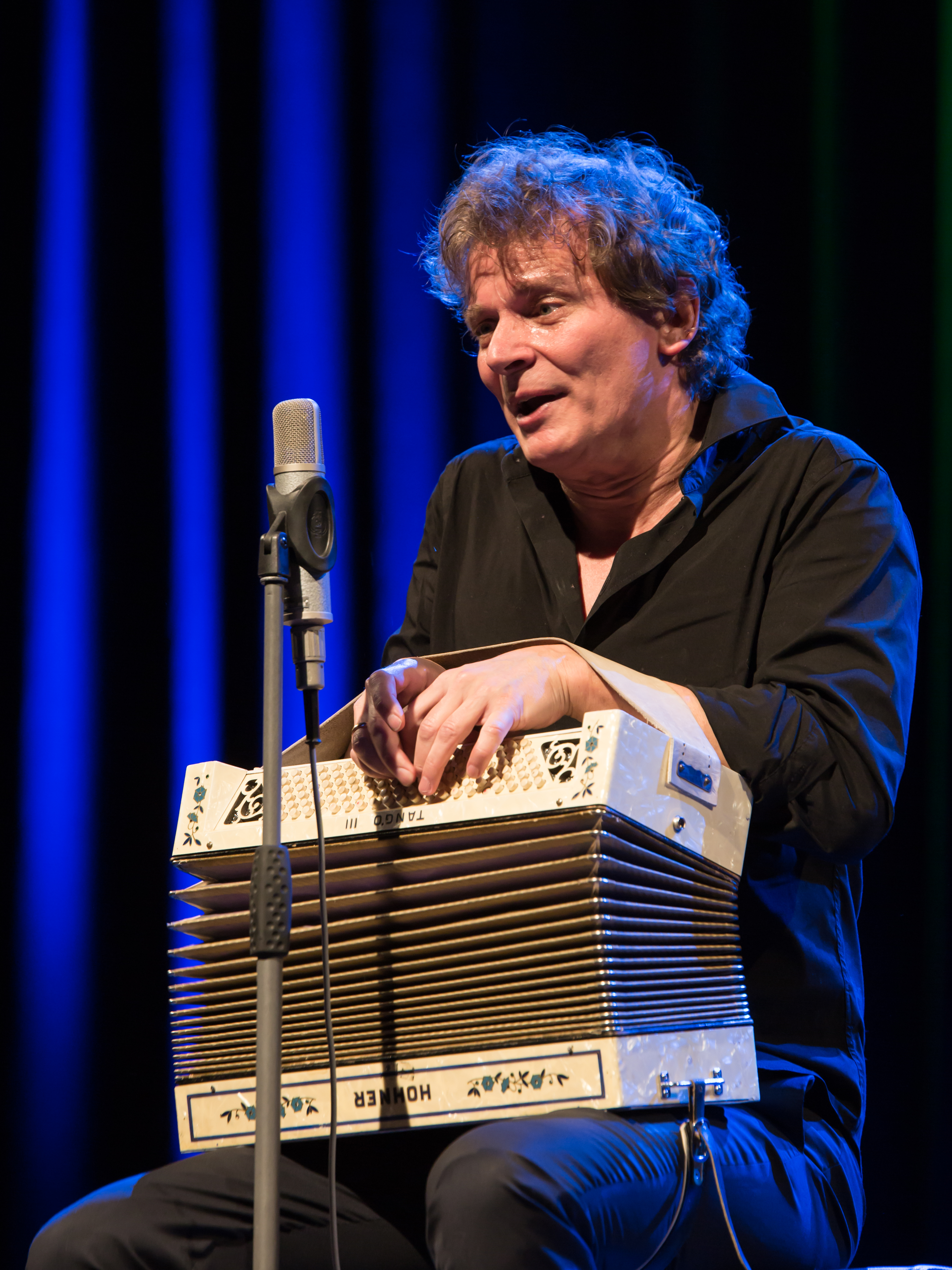 Swiss musician Christian Zehnder at the Internationale Kulturbörse Freiburg 2018